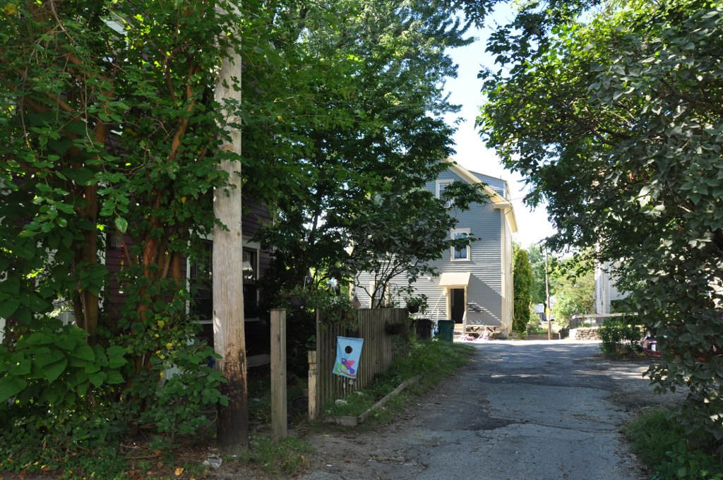 Cato Hill Historic District, Woonsocket, Rhode Island. View of Clarkson Lane.